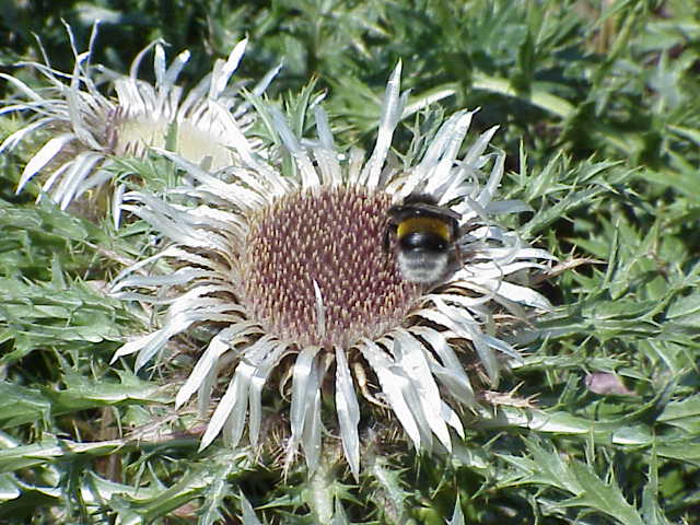 Species: Carlina acaulis Family: Compositae Image No. 4